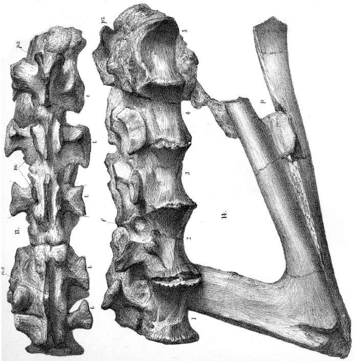 Sacrum and pubes of Aristosuchus pusillus